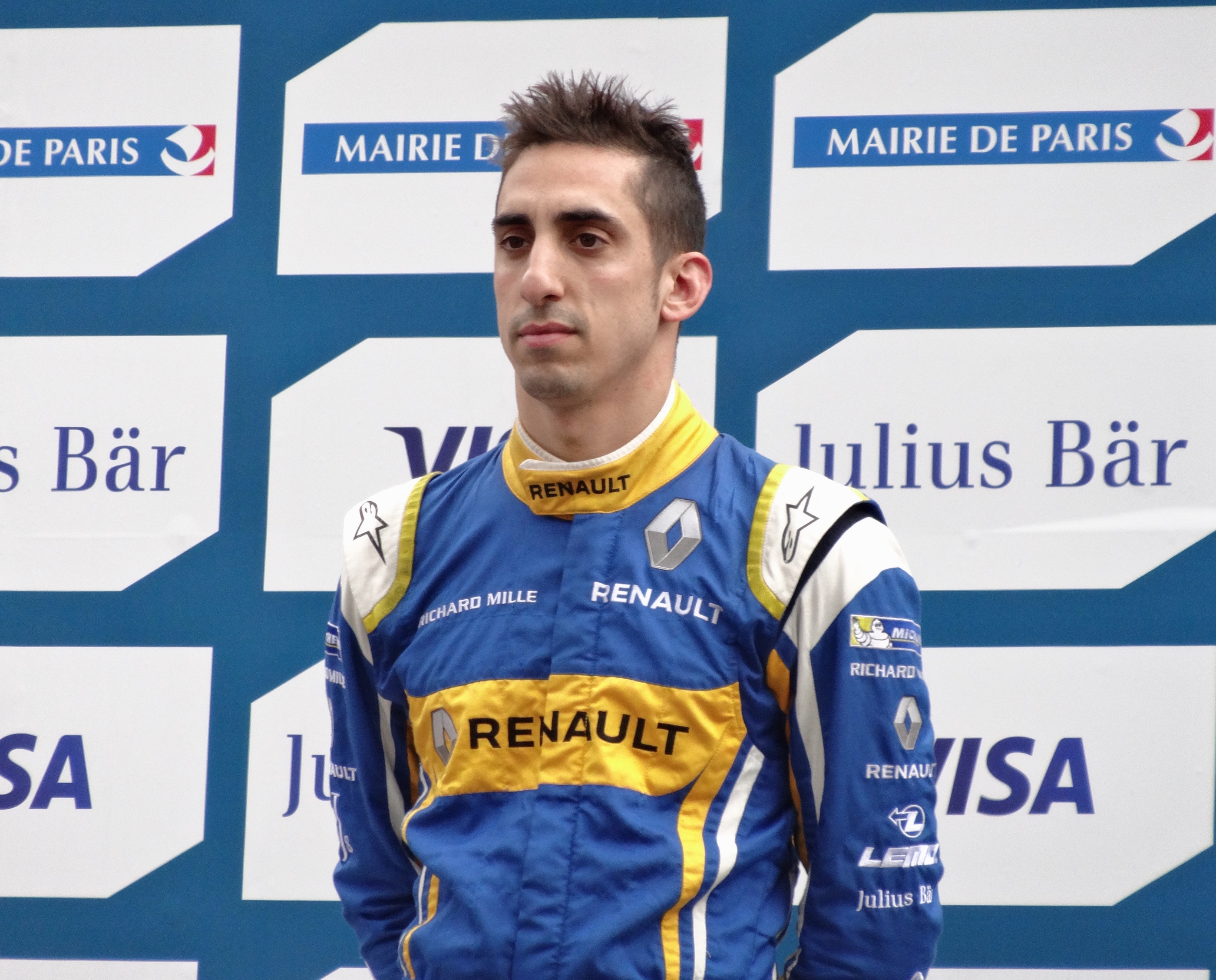 Stéphane Buemi Formula E